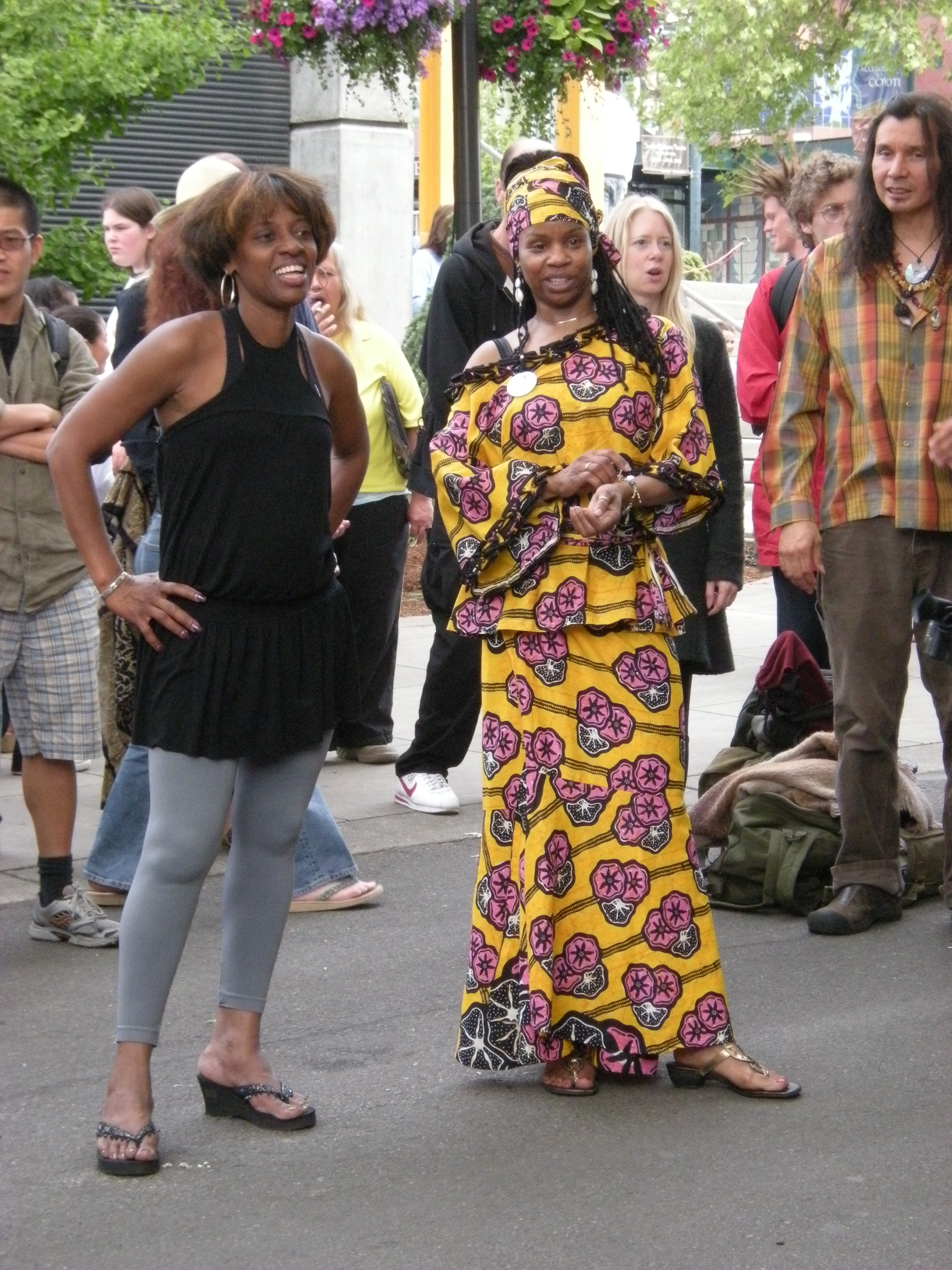 Woman in African dress at Northwest Folklife Festival, Seattle Center, 2008.